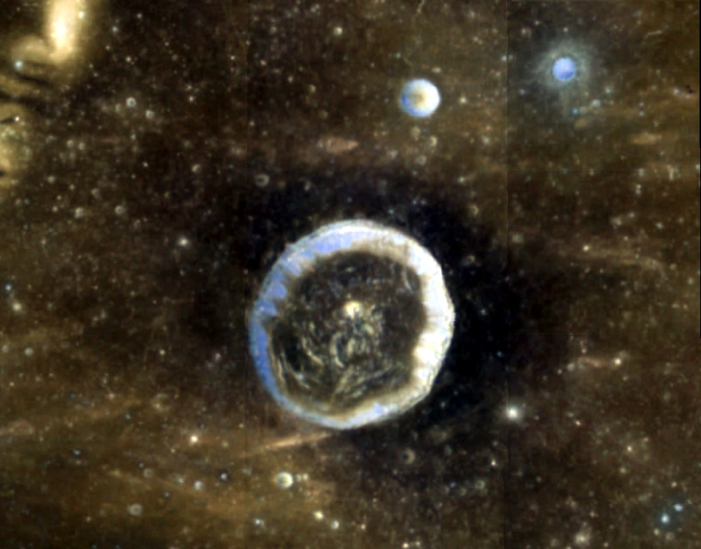 Reiner crater in the equatorial region of the near side of the Moon. Cropped version (by uploader) of computer generated image by PDS MAP-A-PLANET.